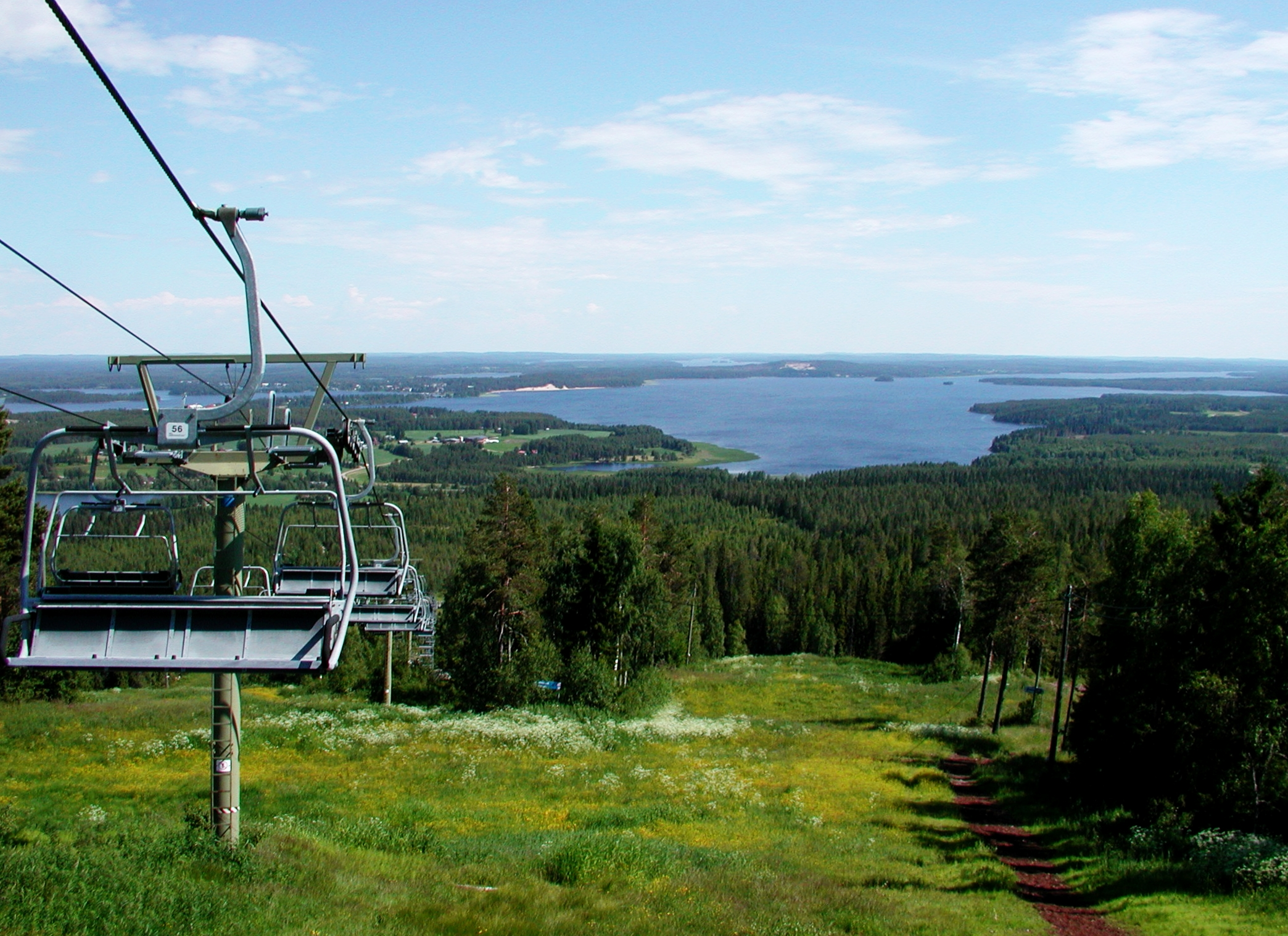 Lake Sapsojärvi in Sotkamo, Finland. View from Vuokatti.